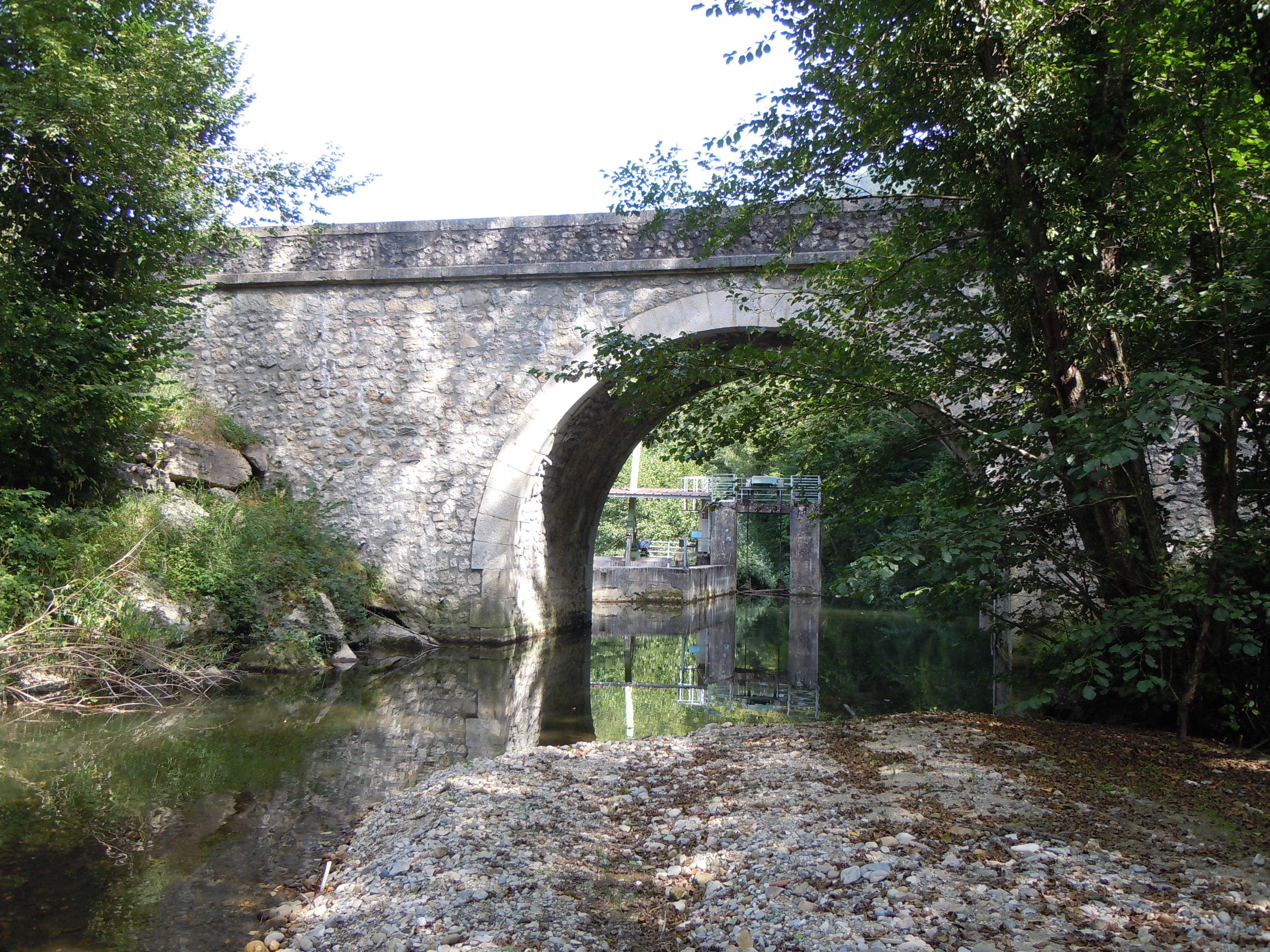 Pont sur l'Ainan - Saint-Bueil - Isère